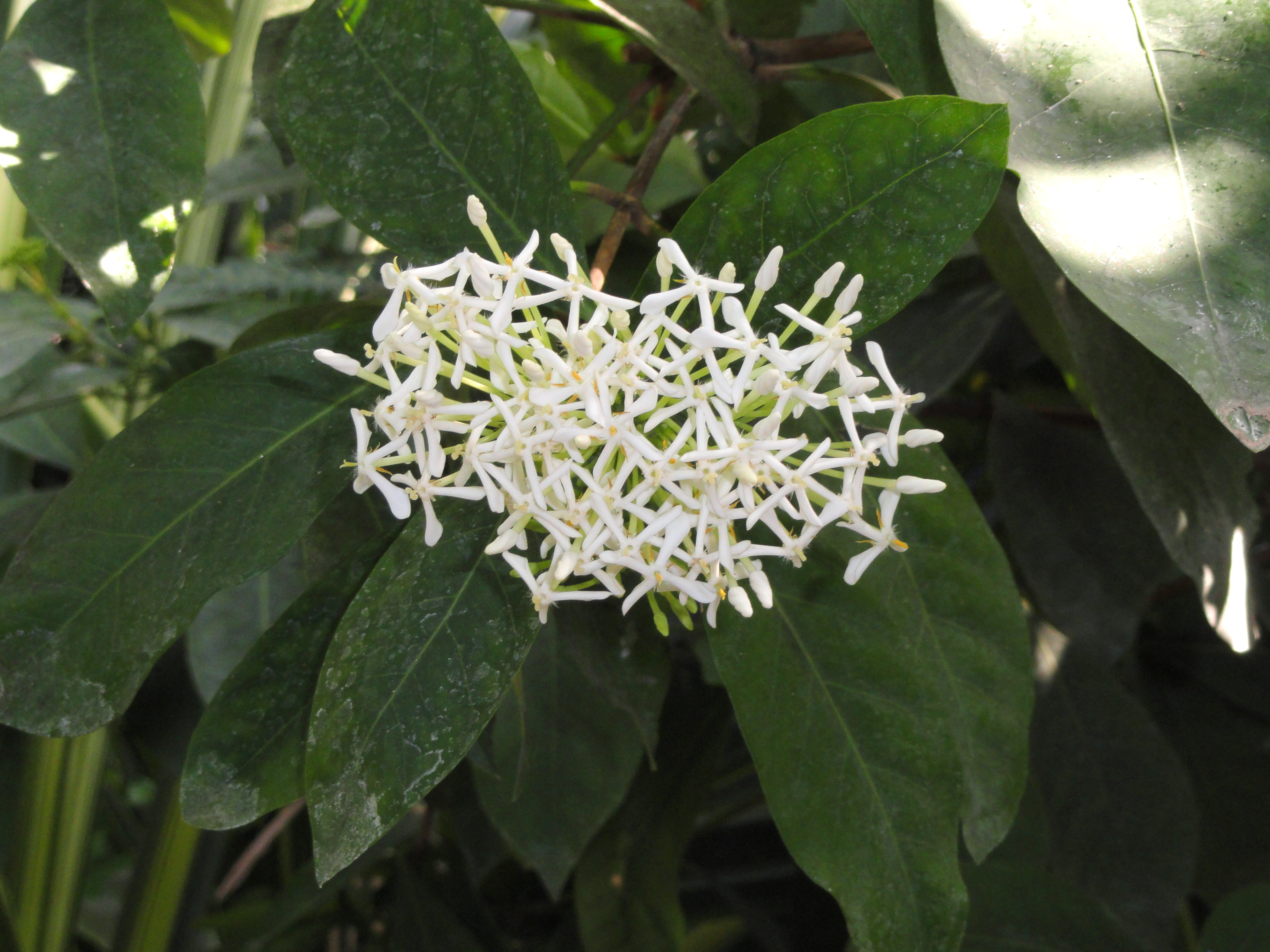 Ixora finlaysoniana specimen in the Jardin Botanique de Lyon, Parc de la Tête d'Or, Lyon, France.